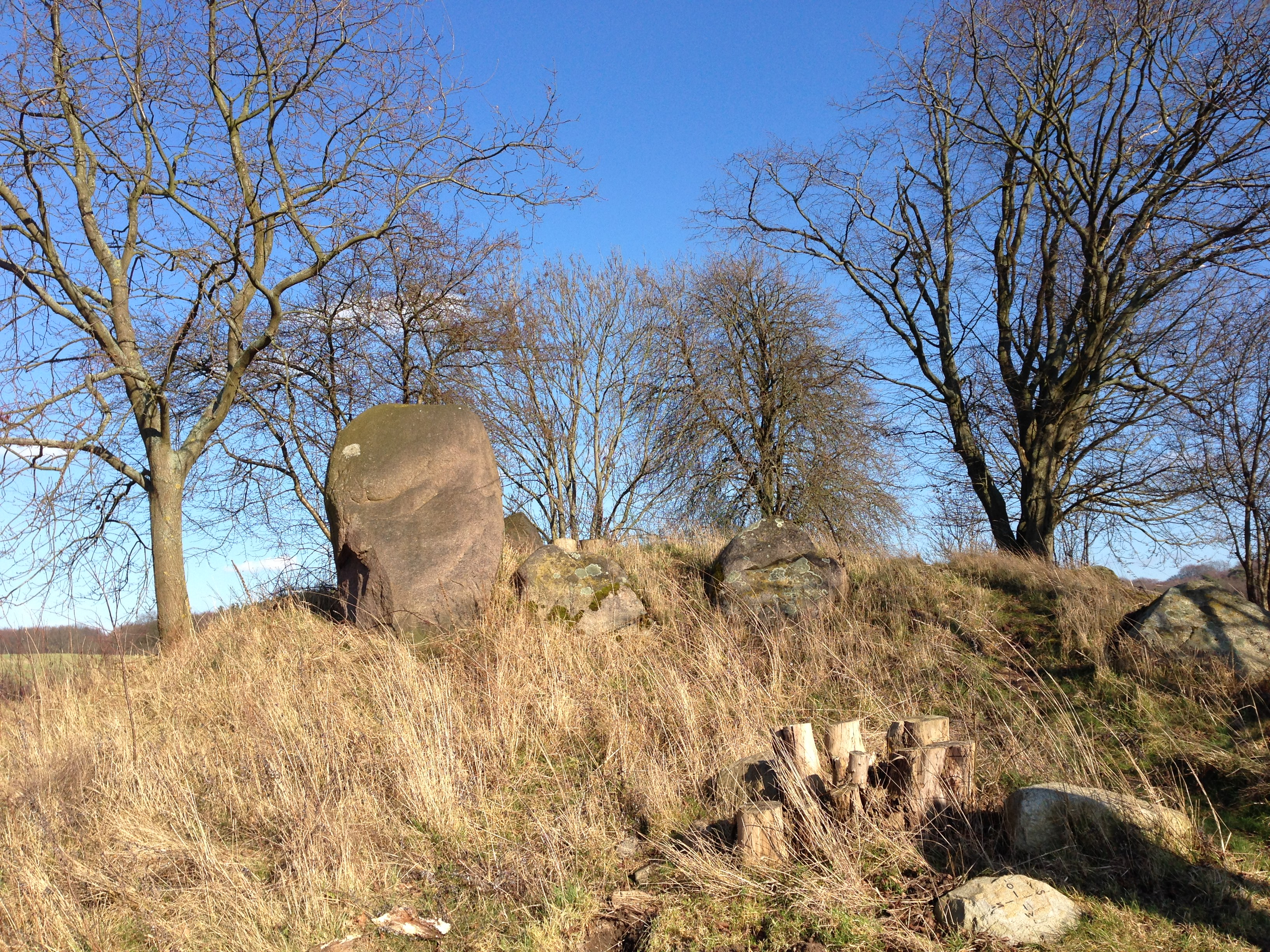 Dolmen in Kritzow (Langen Brütz), district Ludwigslust-Parchim, Mecklenburg-Vorpommern, Germany